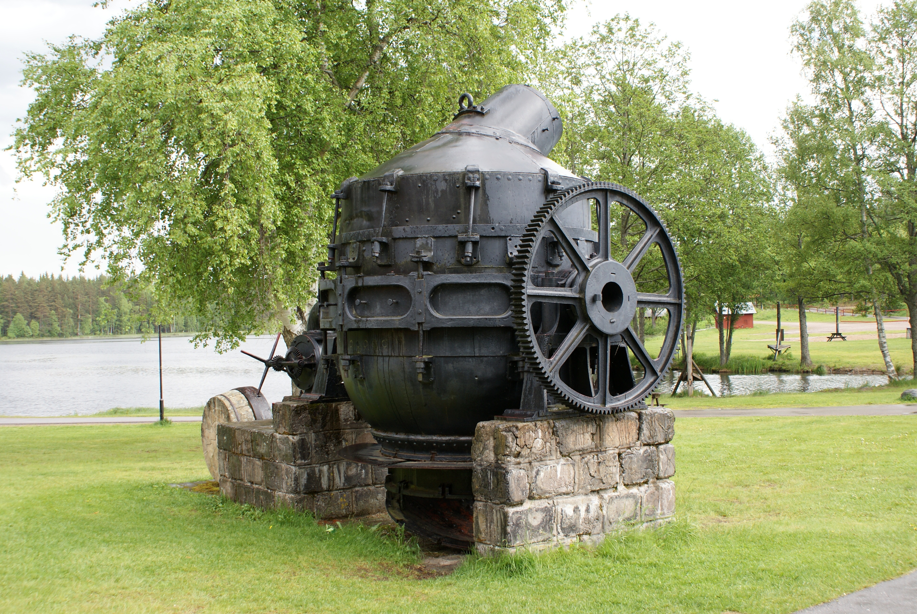 Bessemer converter in Högbo bruk